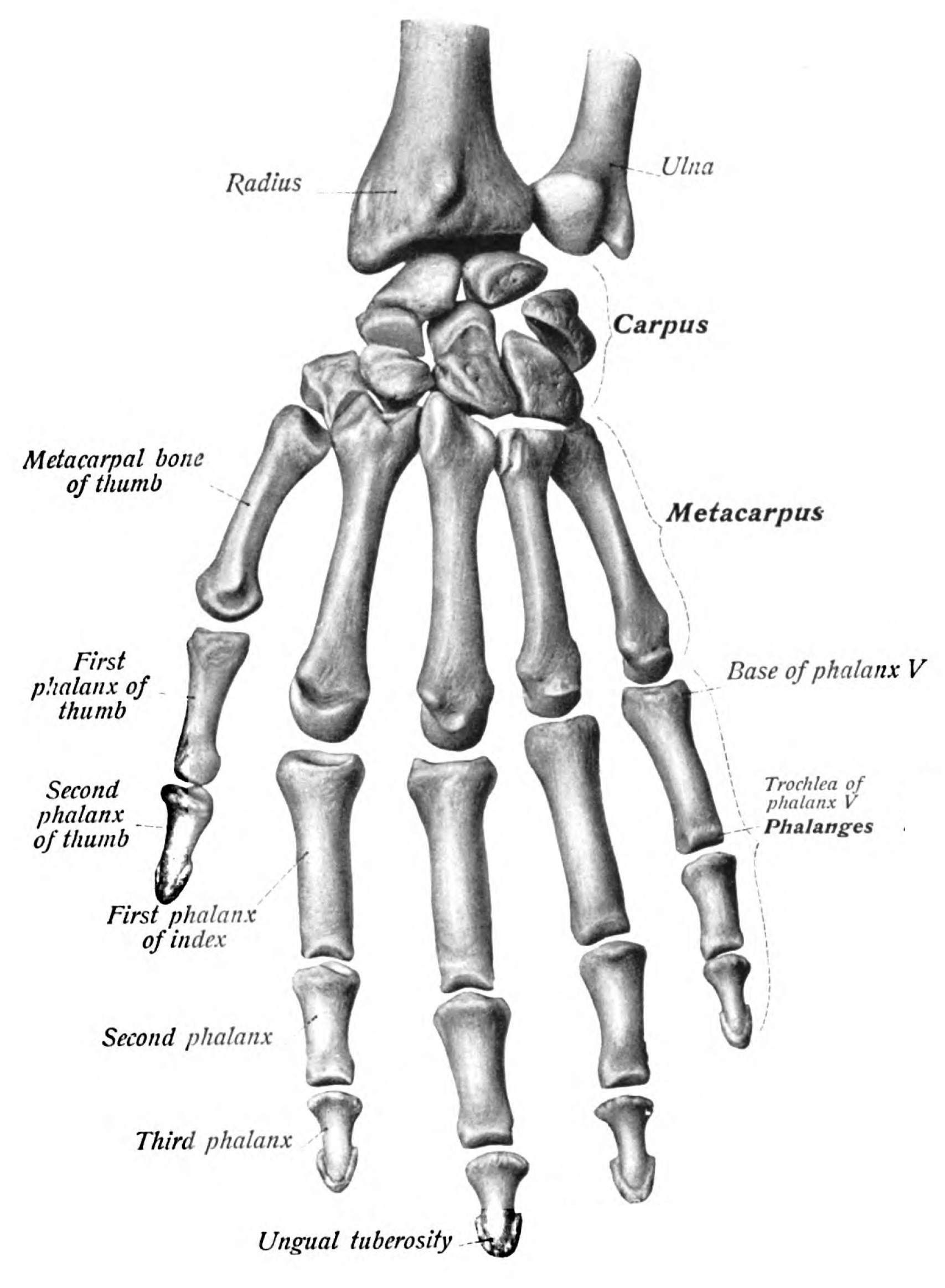 An anatomical illustration from Sobotta's Atlas and Text-book of Human Anatomy 1909